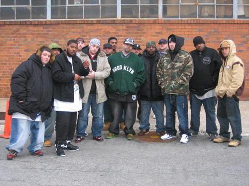 A photograph of the members of hip-hop supergroup Army of the Pharaohs